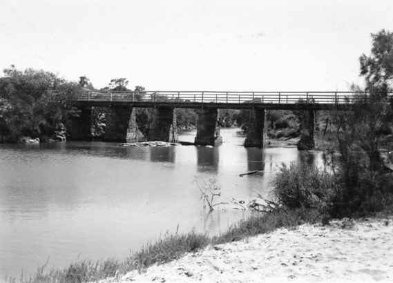 This is a photograph of Geraldton's bridge over the Chapman River, in 1946.